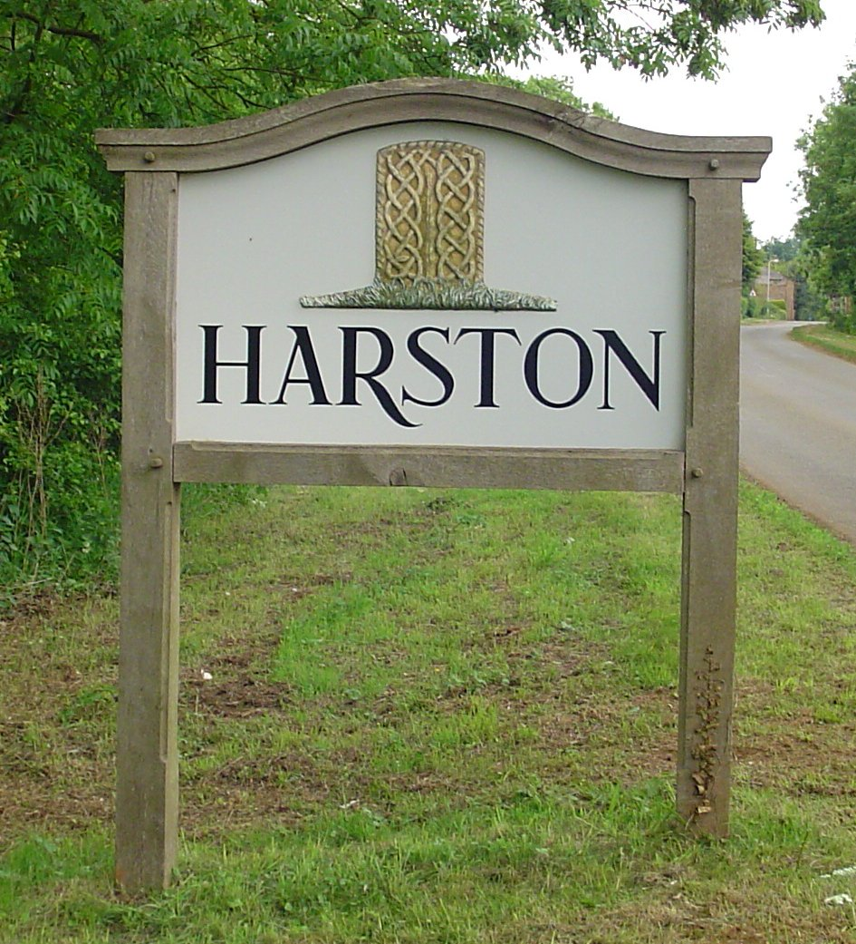 Signpost in Harston, Leicestershire